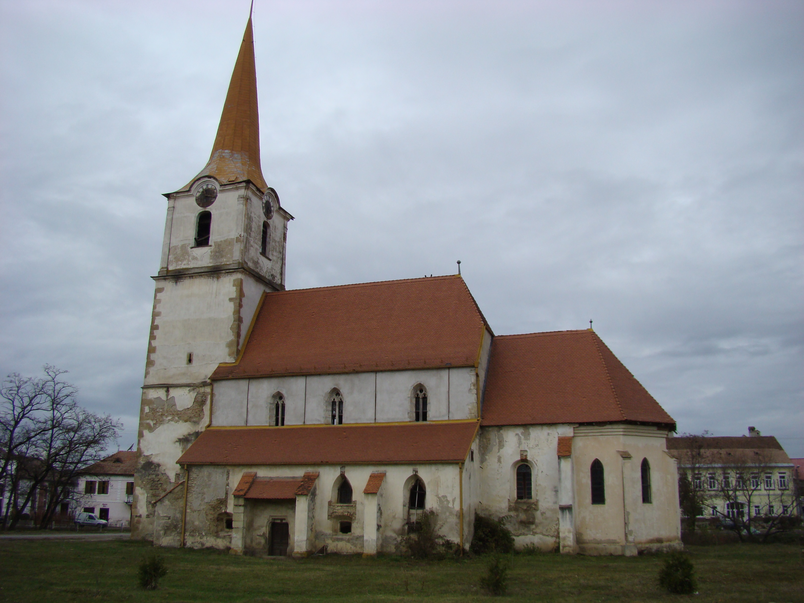 Saxon Lutheran church in Teaca, Bistrița-Năsăud County, Romania